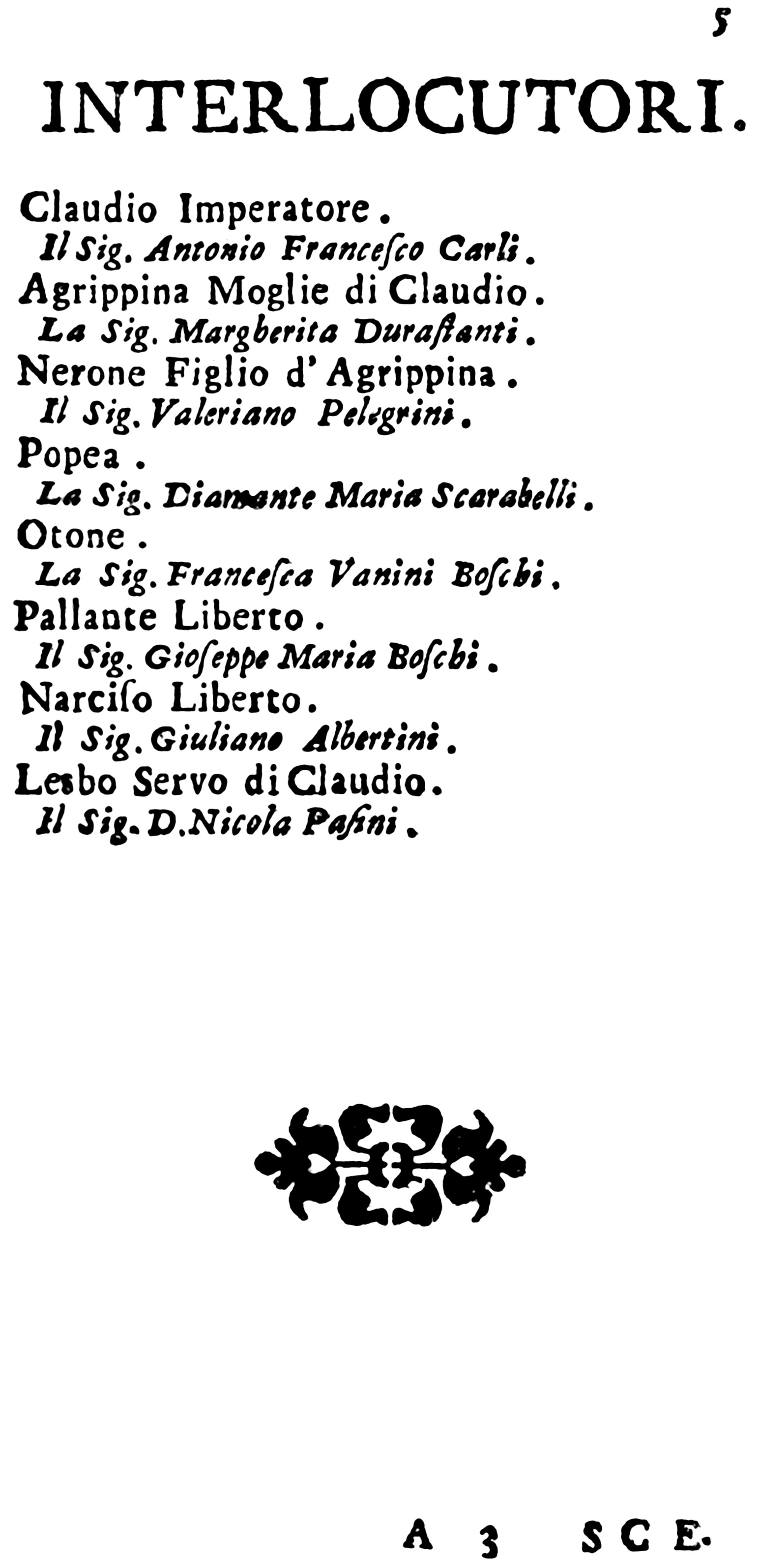 2-D reproduction of 18th-century artwork/plug for 18th century opera